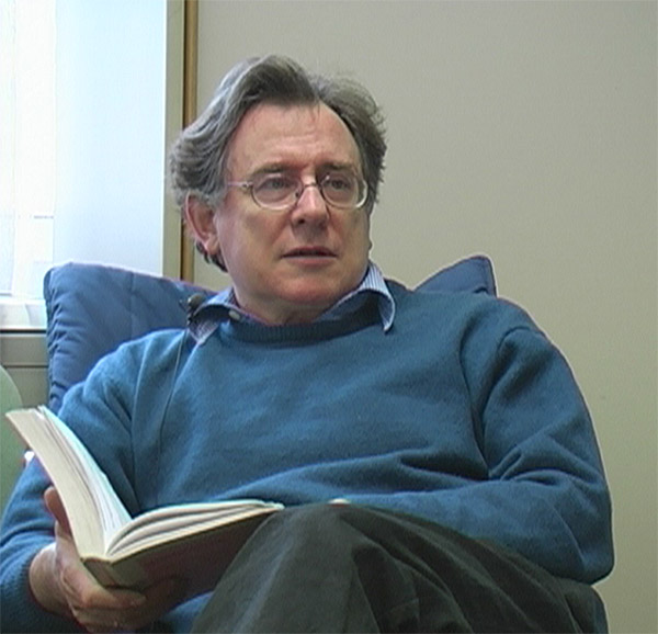 Prof. Rudolf Muhr, linguist at the Karl-Franzens-University in Graz, Austria; screenshot from a self-made TV-interview